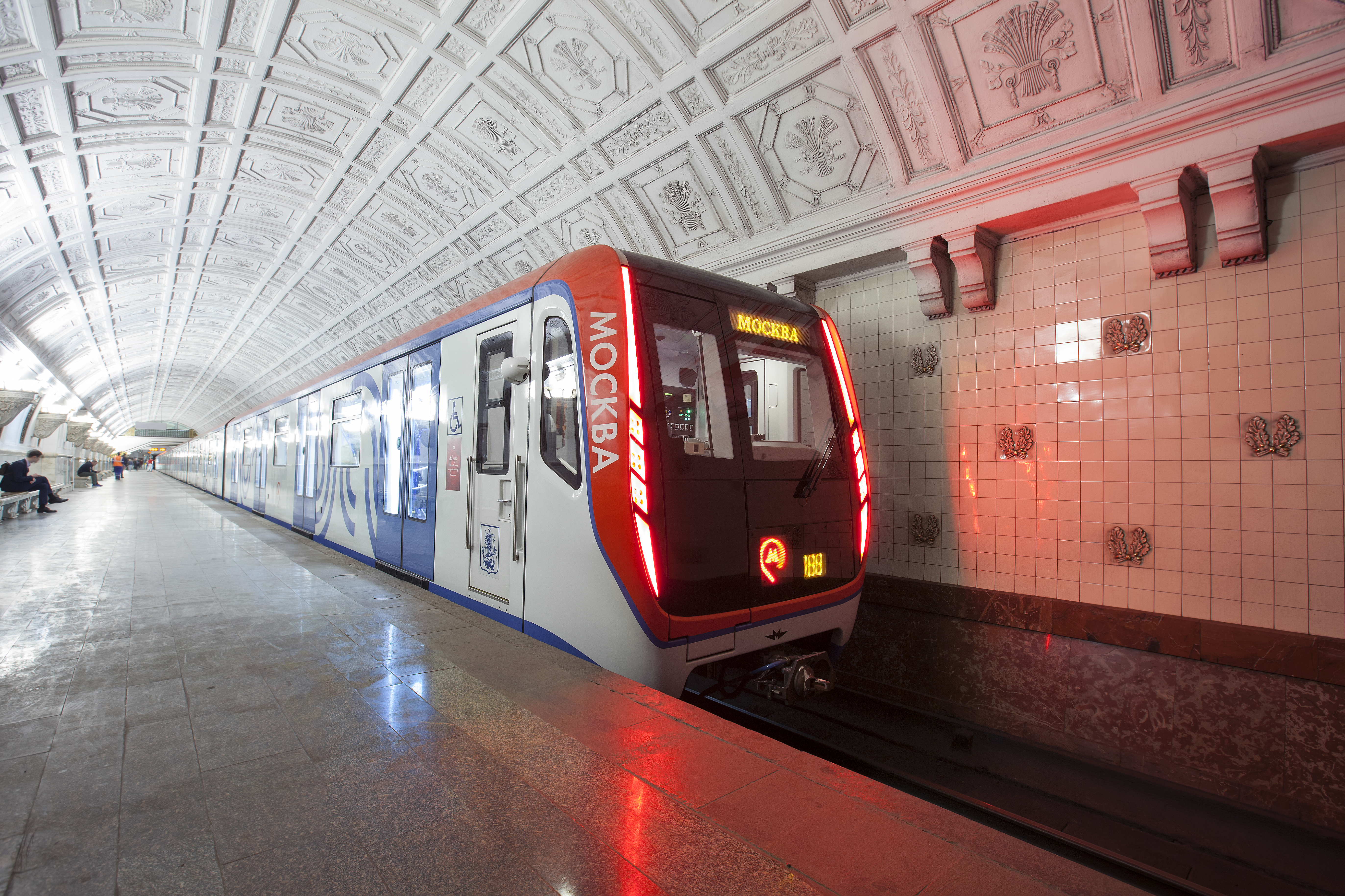 Train type 81-765/766/767 "Moskva" on Belorusskaya (Koltsevaya) staion of Moscow Metro in May 2019